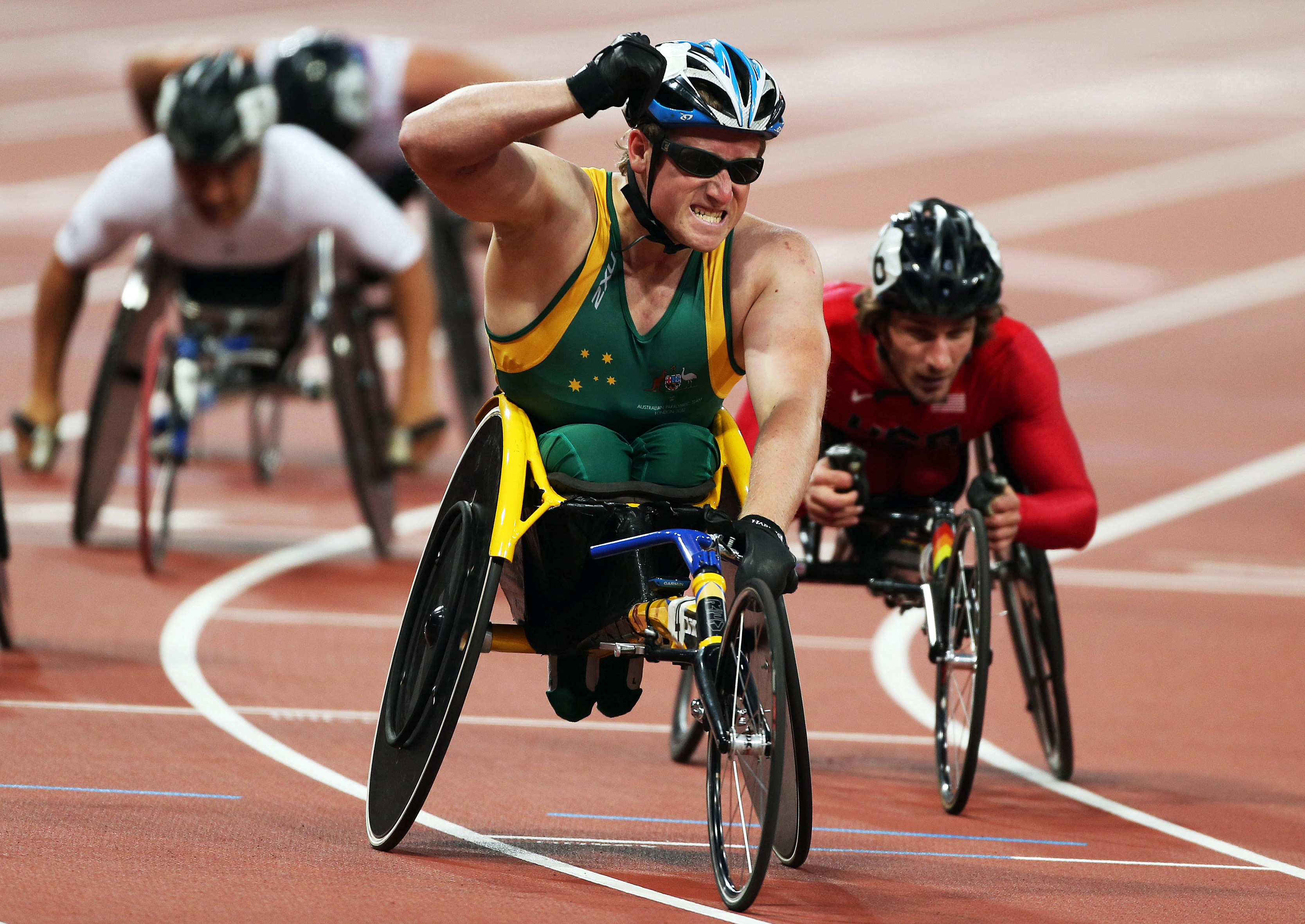 Photograph of Australian Paralympic team member Richard Colman at the 2012 Summer Paralympic Games in London